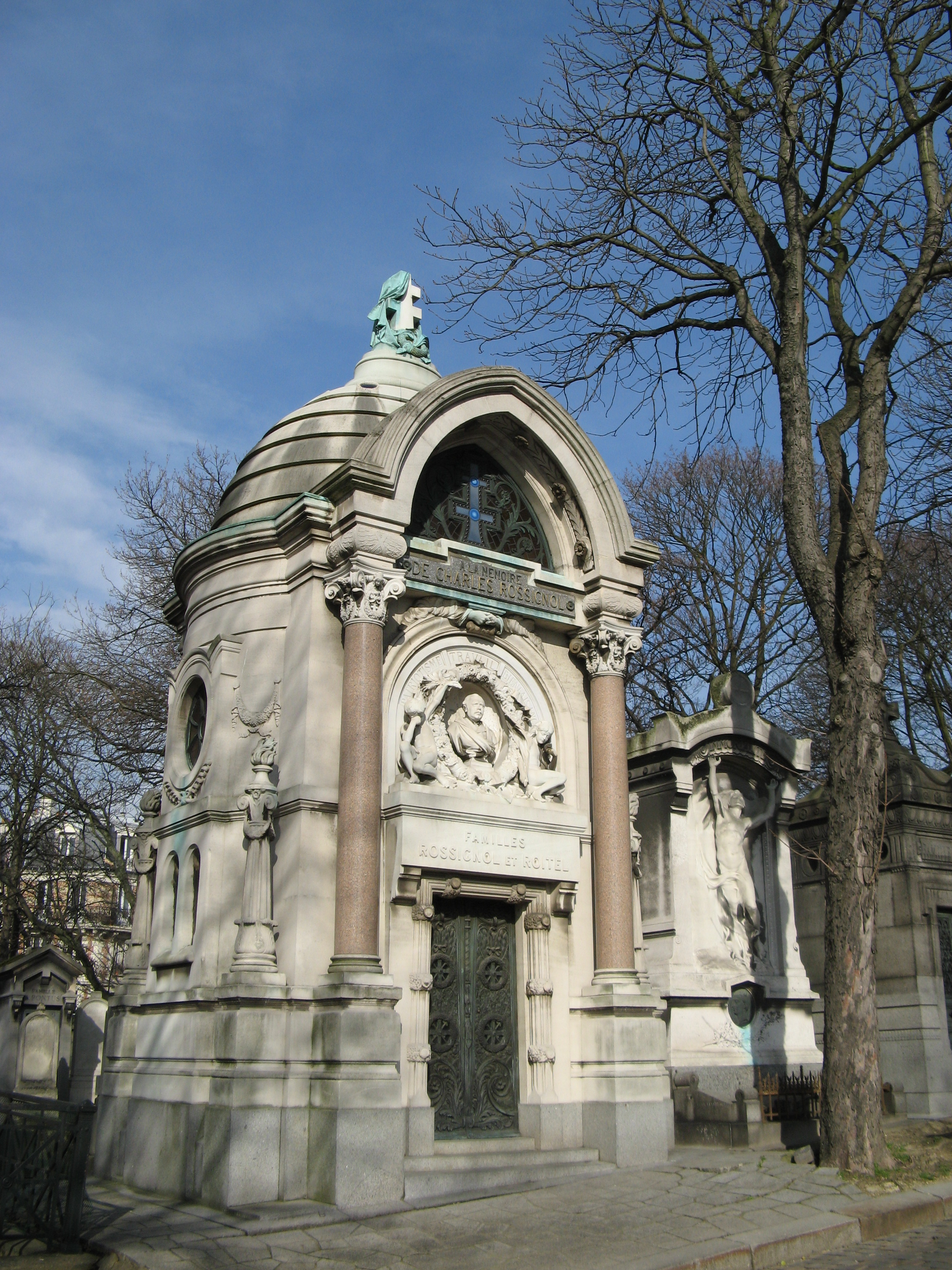 Jacques Charles Rossignol's tombstone in Père Lachaise Cemetery, in Paris.